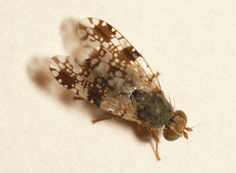 Tephritis crepidis, location: The Netherlands - Wageningen - Plasserwaard